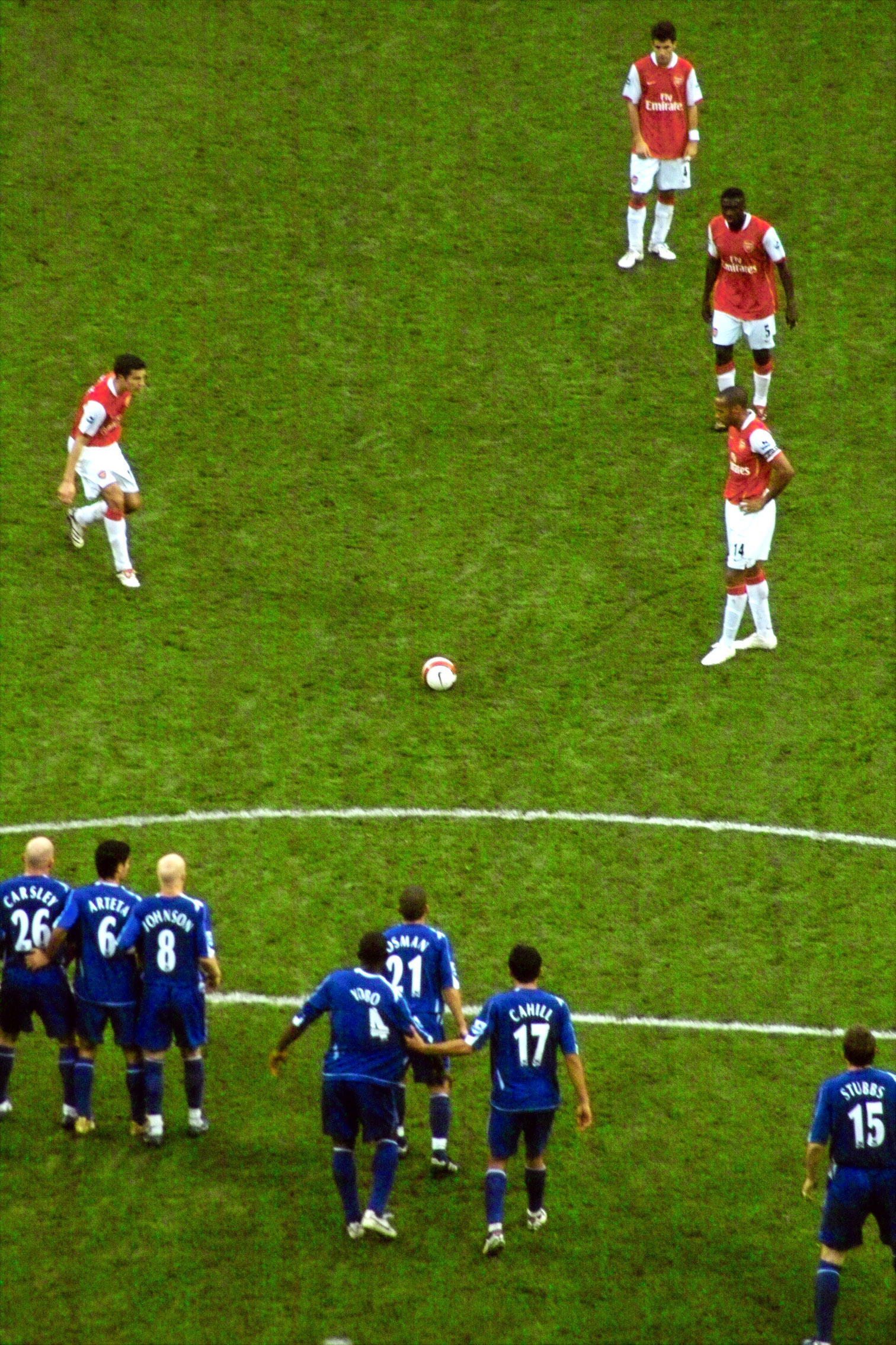 Robin van Persie prepares to take a direct free kick against Everton, which deflected and resulted in a goal. Arsenal players (red shirts, clockwise from top): Cesc Fabregas, Kolo Toure, Thierry Henry, Robin van Persie Everton players (blue shirts, left to right): Lee Carsley, Mikel Arteta, Andy Johnson, Joseph Yobo, Leon Osman, Tim Cahill, Alan Stubbs